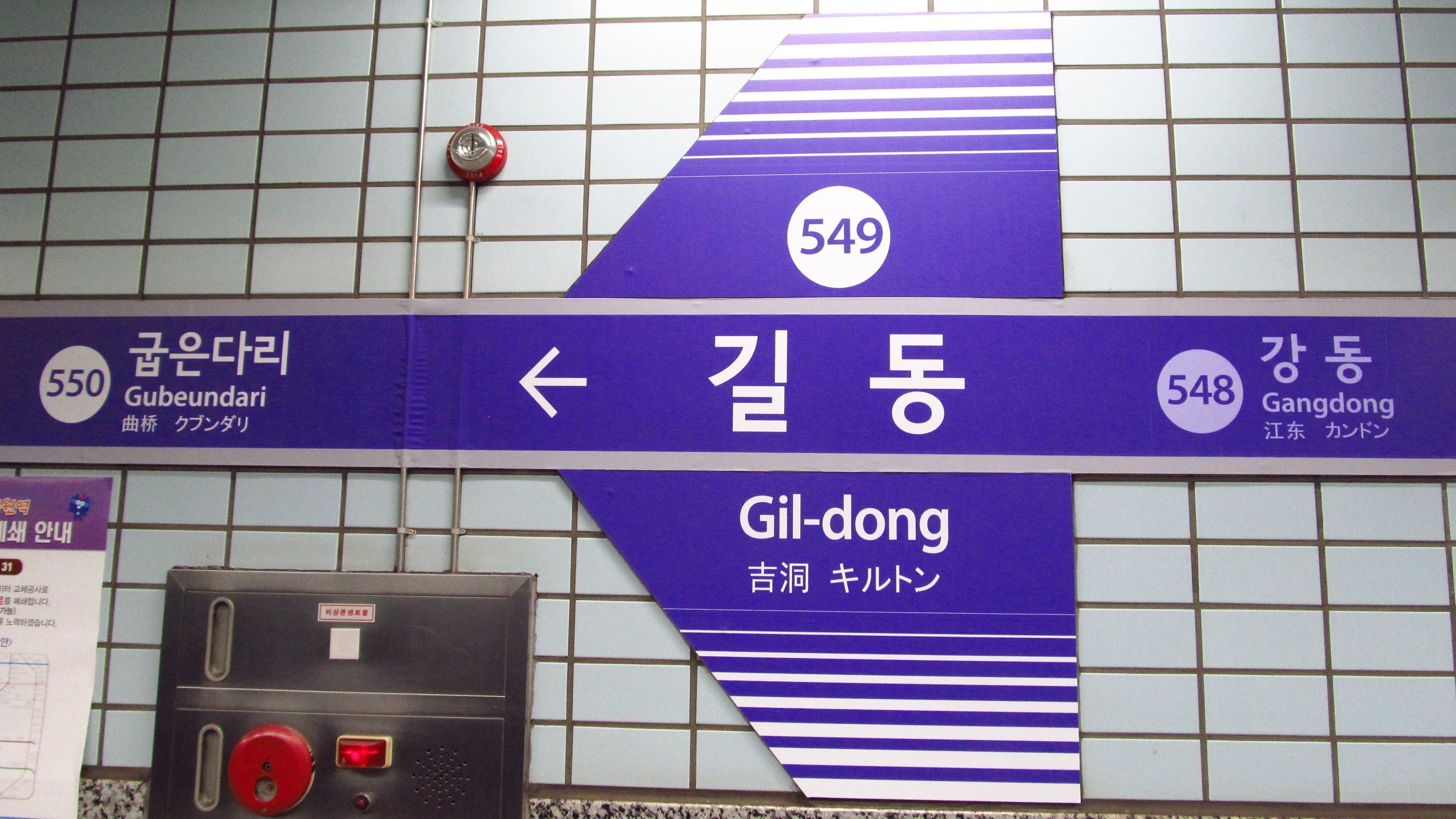 A sign of Gil-dong Station on Seoul Subway Line 5